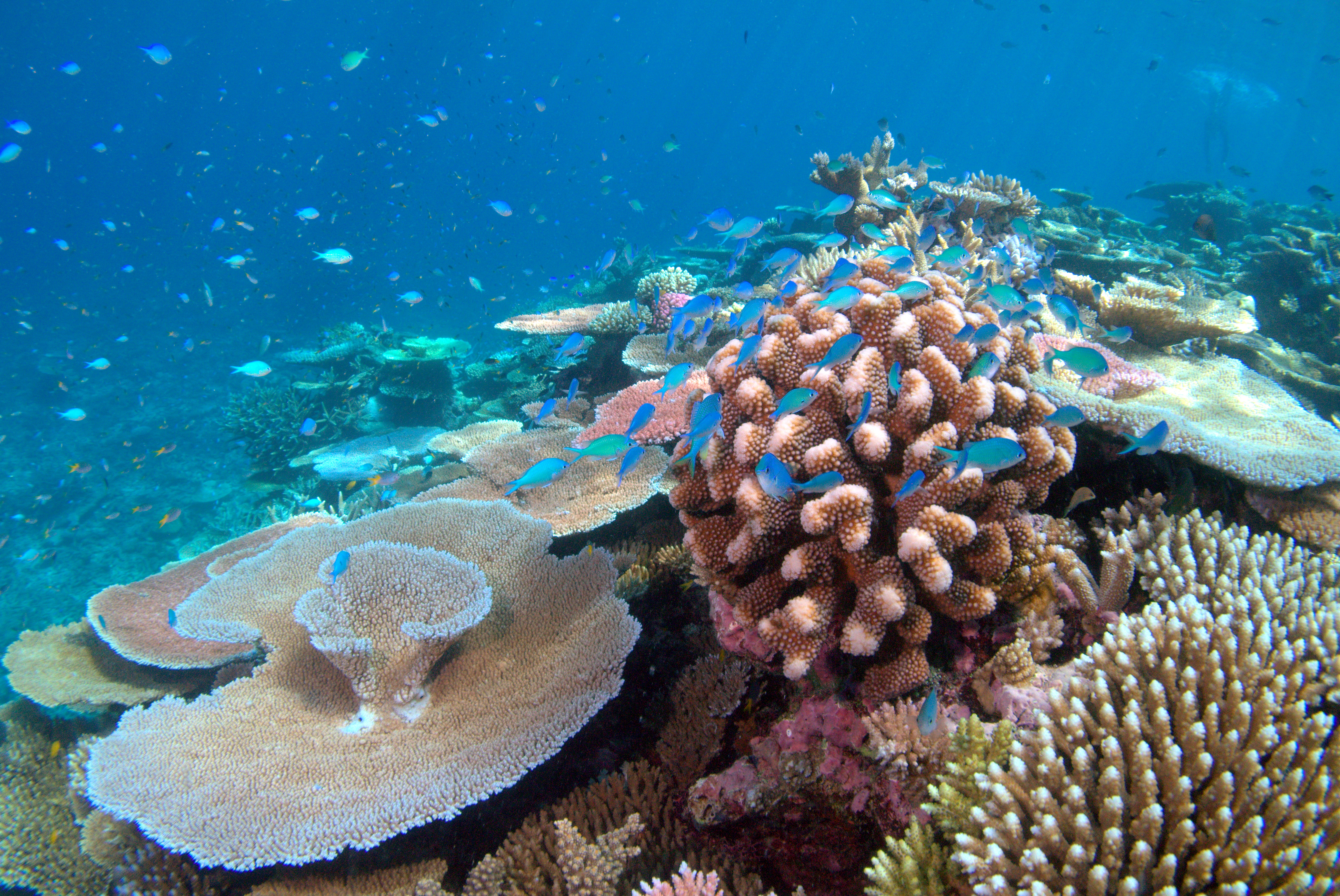 Lodestone Reef Valentines Day 2016, Green Chromis on Coral